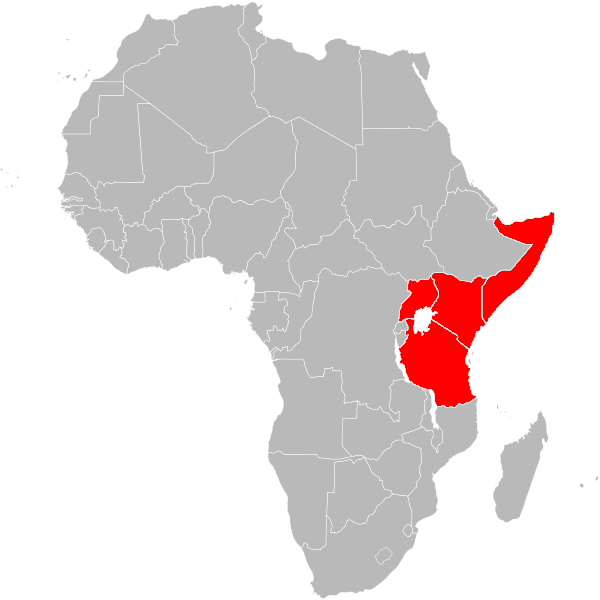 Map of Africa highlighting countries using a currency known as "shilling" in English.